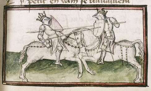 Charles and Manfred